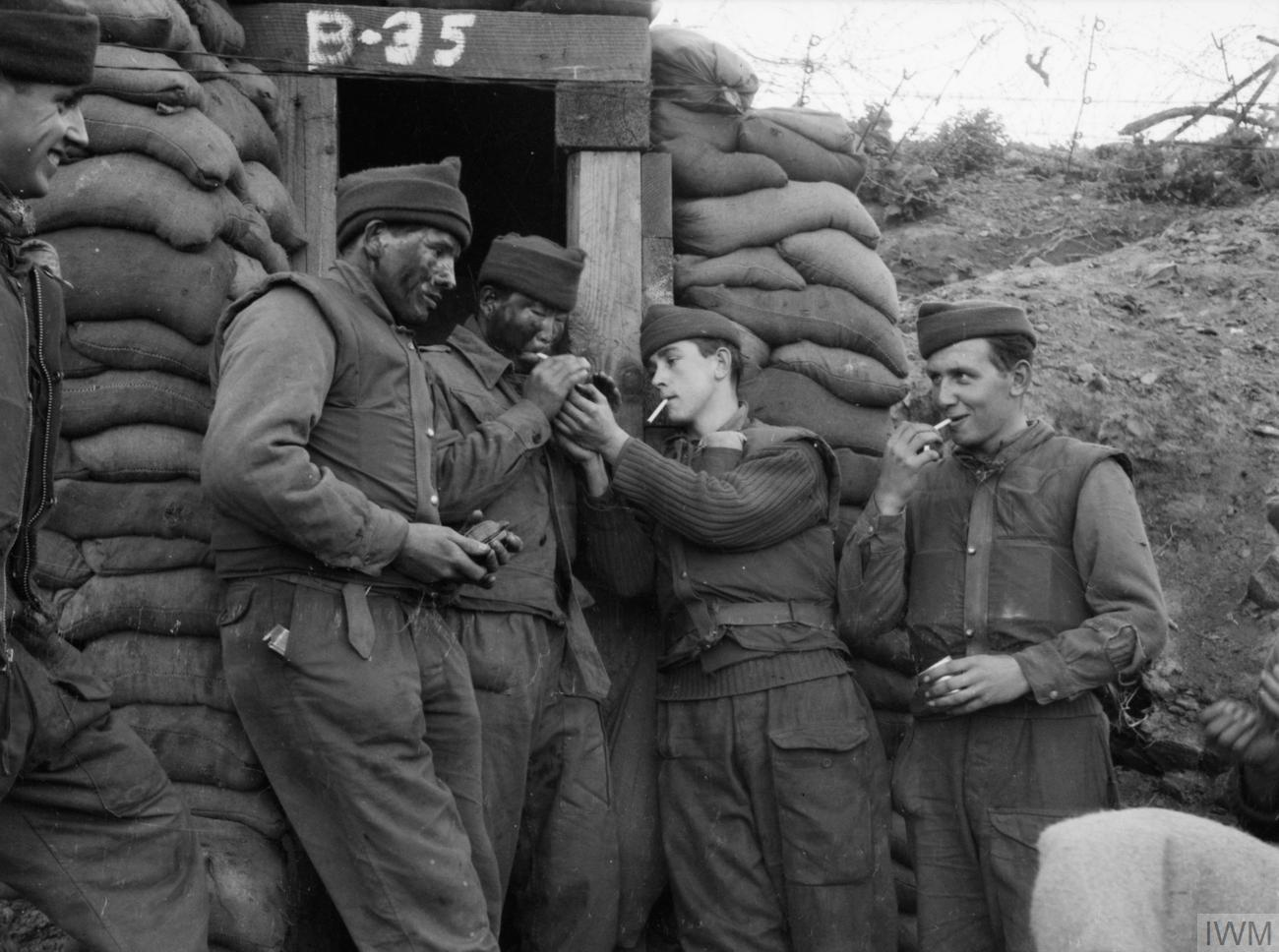 Men of the 1st Battalion, The Duke of Wellington's Regiment, have a smoke while waiting for dusk to fall before joining a patrol into no-man's land at The Hook.